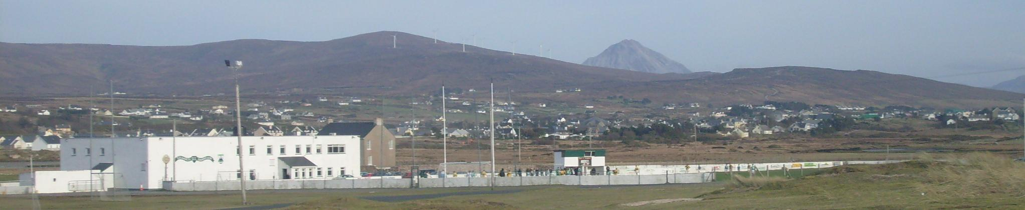 Gweedore GAA clubhouse (CLG Ghaoth Dobhair) and the parish of Gweedore and Errigal in the background.